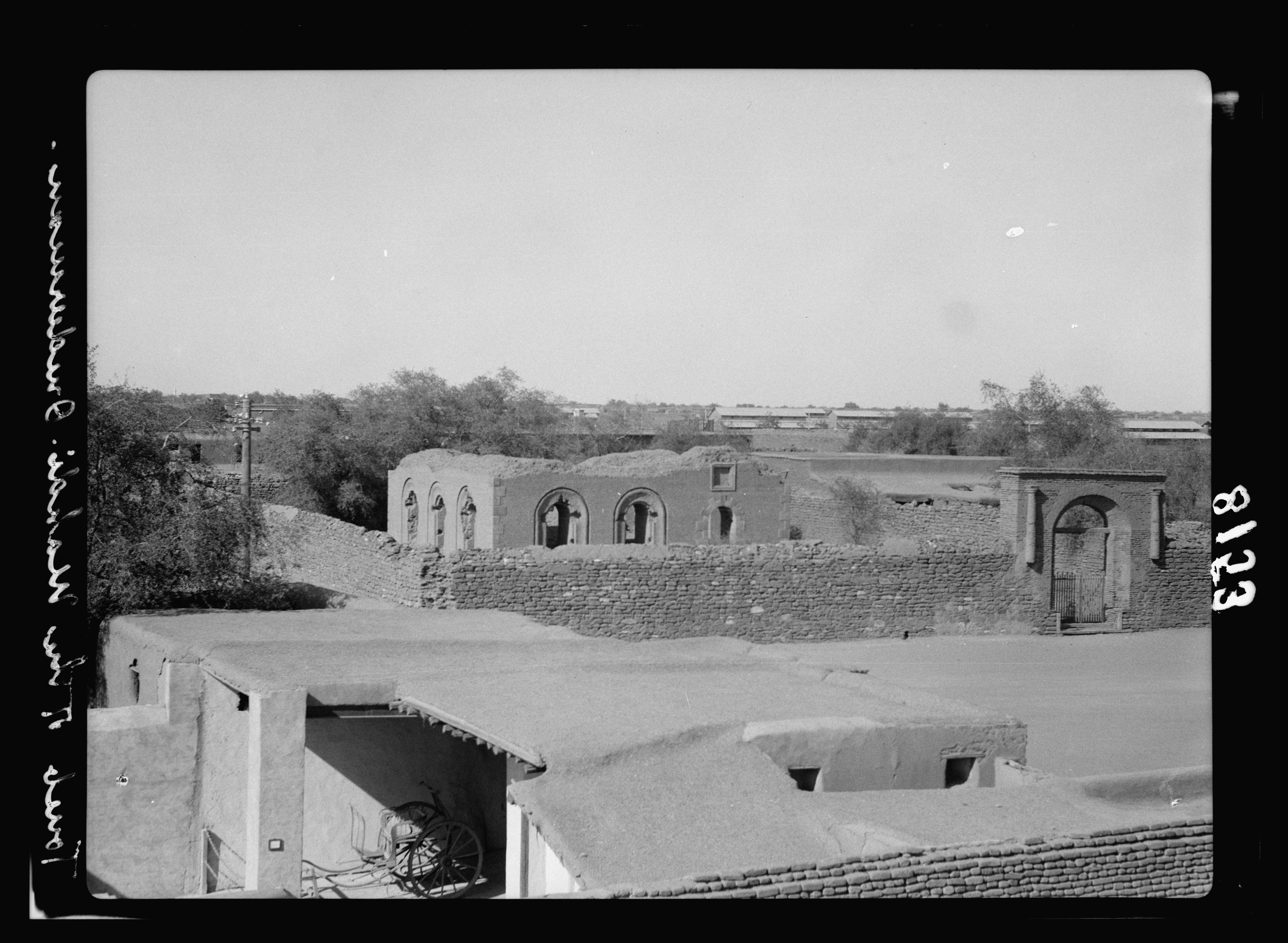 Title: Sudan. Omdurman. The Mahdi's tomb Abstract/medium: G. Eric and Edith Matson Photograph Collection Physical description: 1 negative